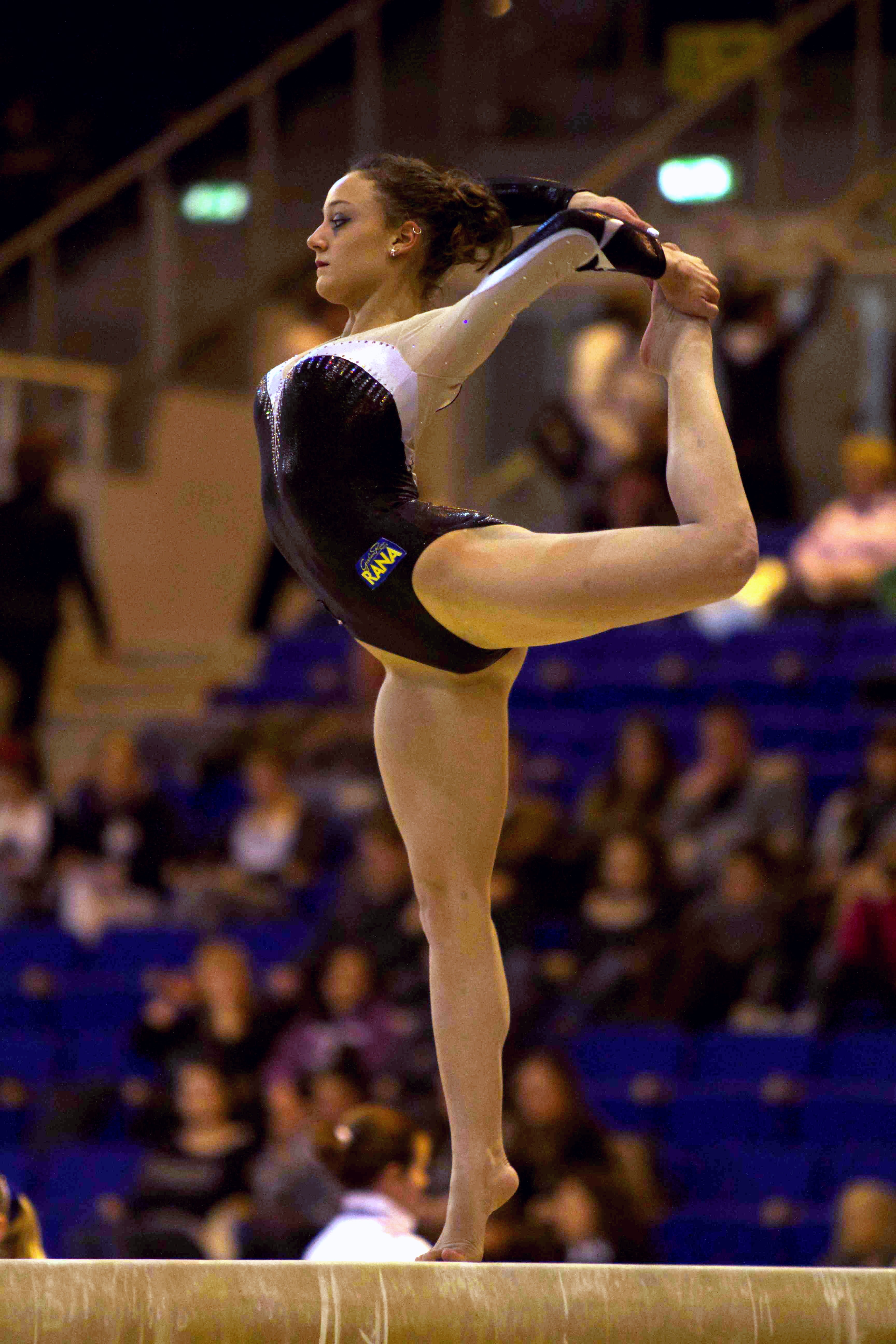 Elisabetta Preziosa. Jesolo, 24th march 2013